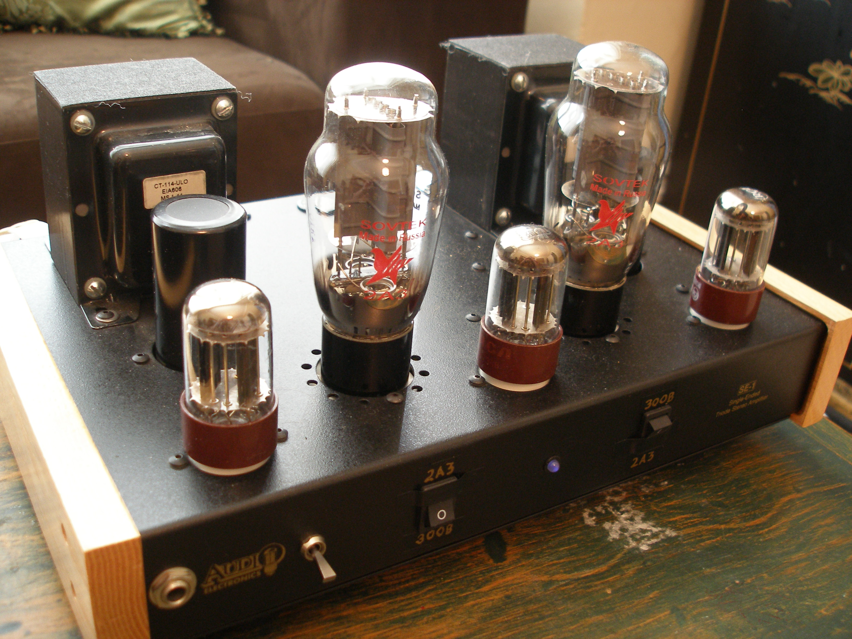 Audio Electronic Supply SE-1 with Sovtek 2A3's and RCA 5692